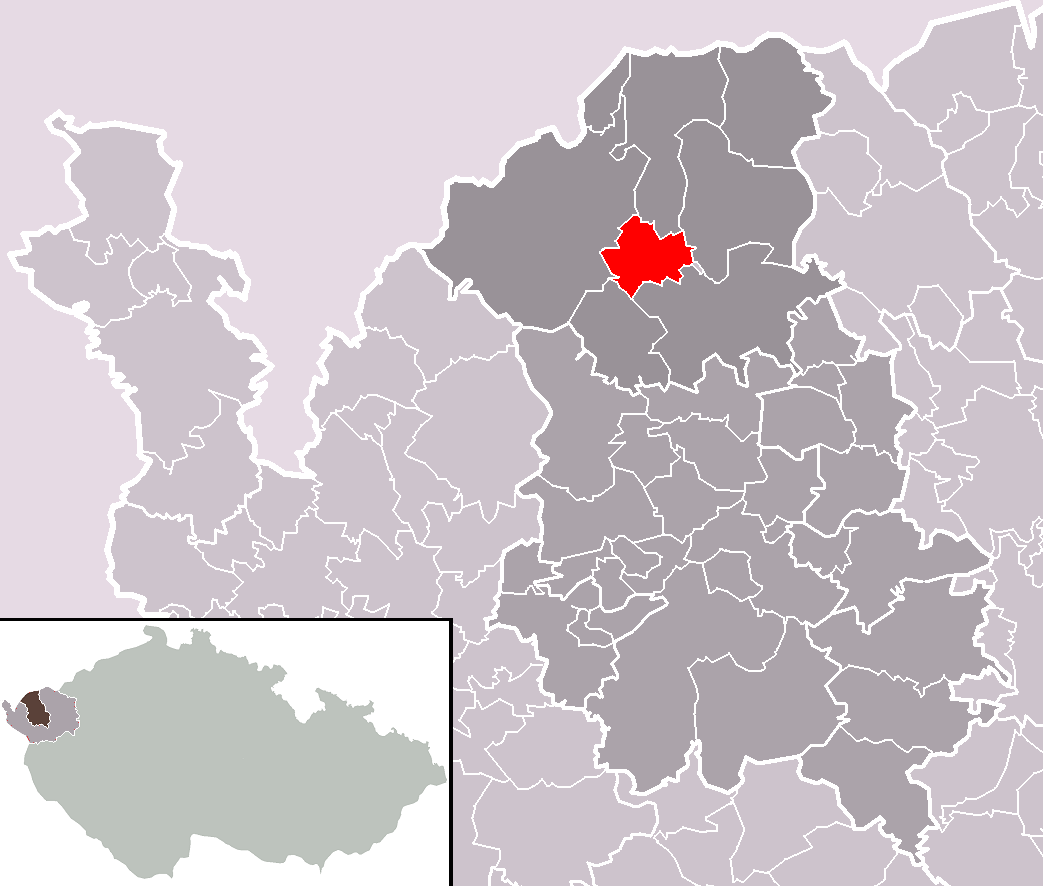 Location of Rotava town within Sokolov District and administrative area of Kraslice as a Municipality with Extended Competence.